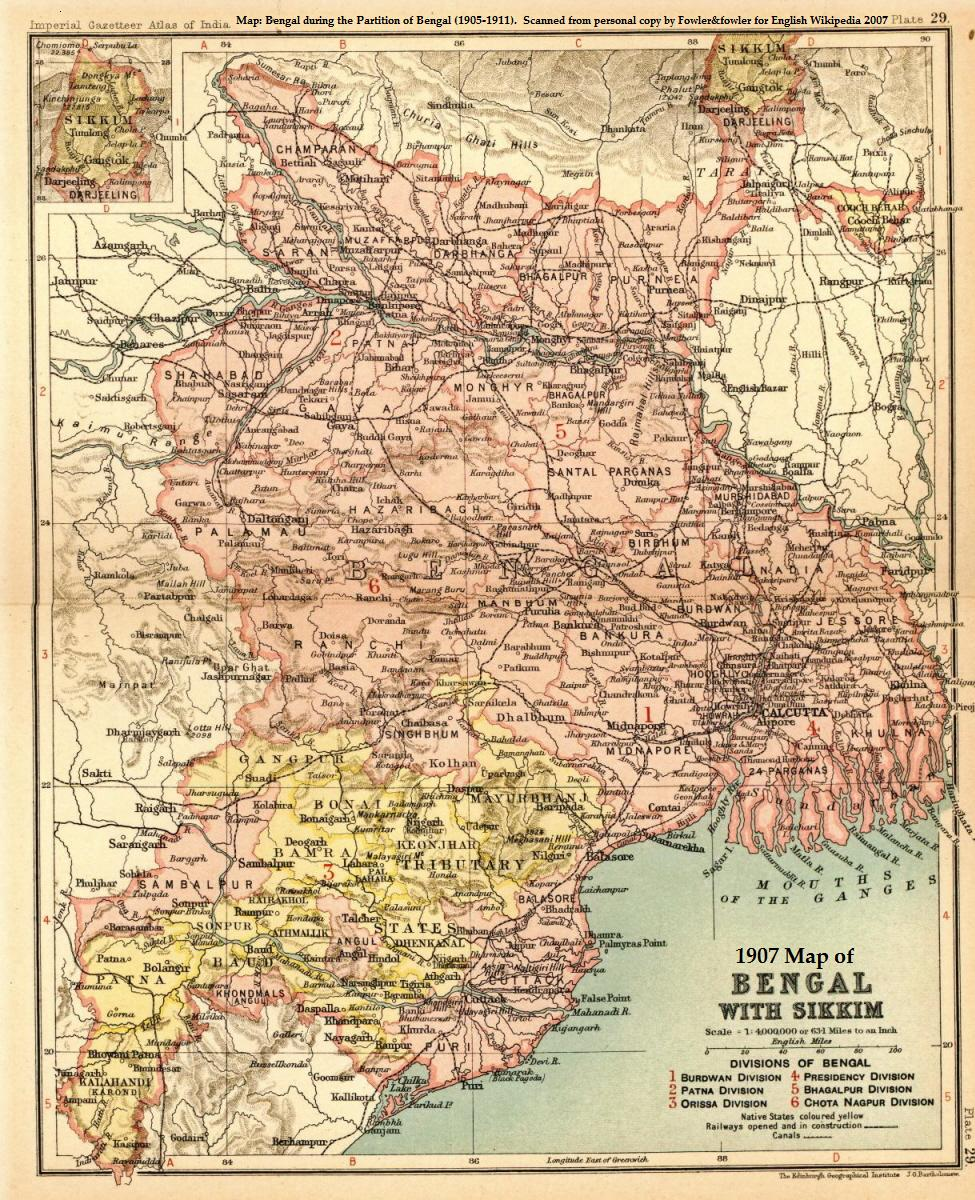 Scanned, cropped, enhanced, and resized from personal copy of 1907 Imperial Gazetteer of India, Oxford University Press, volume 25 (Atlas) by Fowler&fowler«Talk» 21:23, 14 September 2007 (UTC)